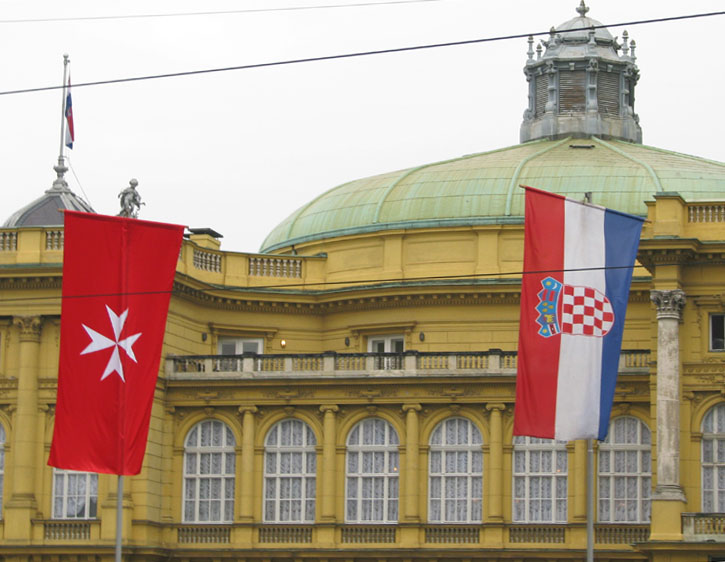 Flags of Sovereign Military Order of Malta and of Croatia in Zagreb, during the visit of Grand Master Fra' Matthew Festing to the Republic of Croatia on November 25, 2008